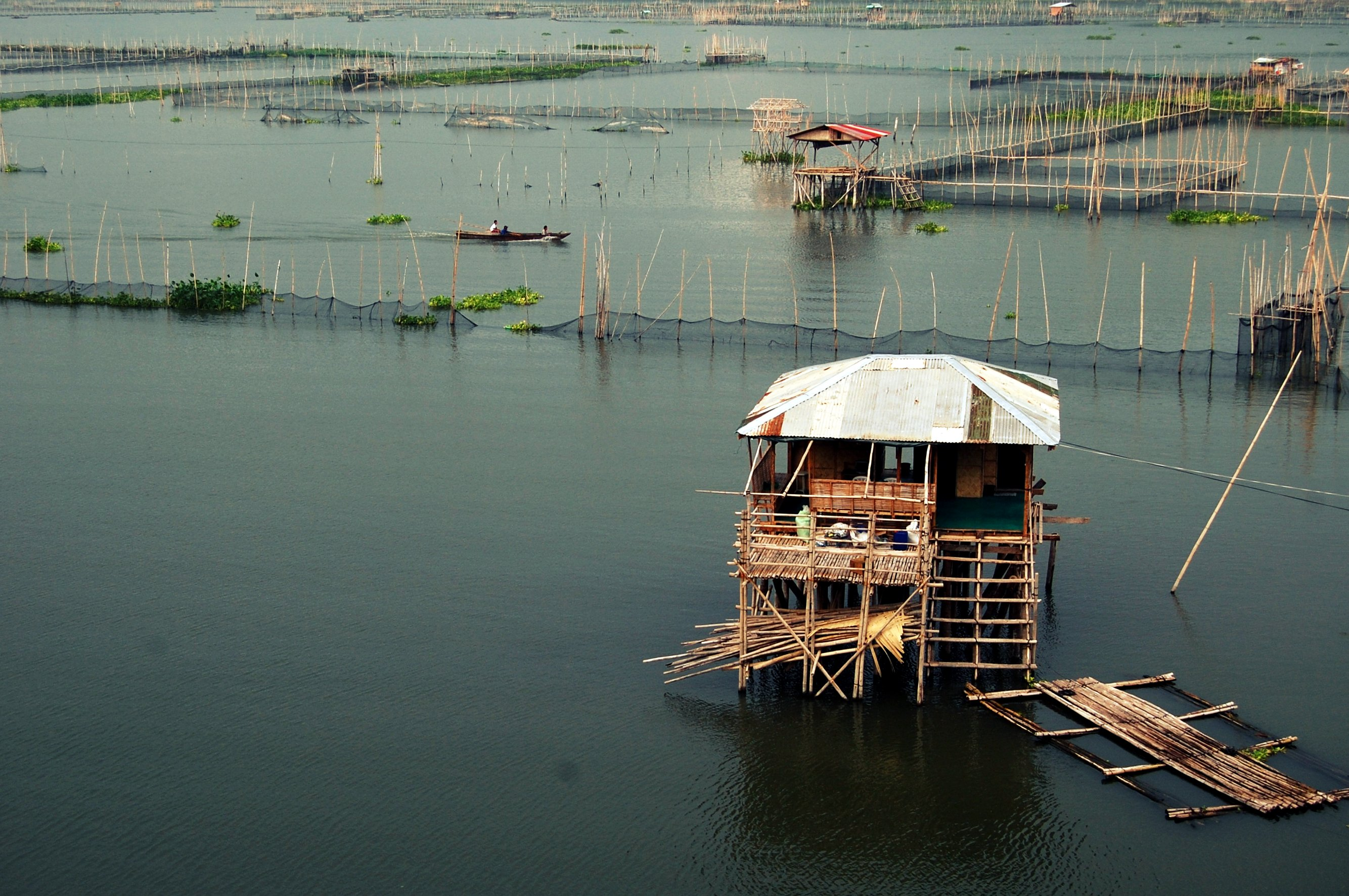 That night, typhoon "Basyang" pounded the fish pens and liberated silvery swarms of bangus and the roofs of shanties along the coast of Laguna de Bay. Power is gone the next day, battery is drained, we were taking off back to Manila, and there goes my chance of shooting the devastation. Today as I posted this photo, I noticed two smudges in the photo which tells me that it's time for old Nikon D40 to go back to the cleaners.